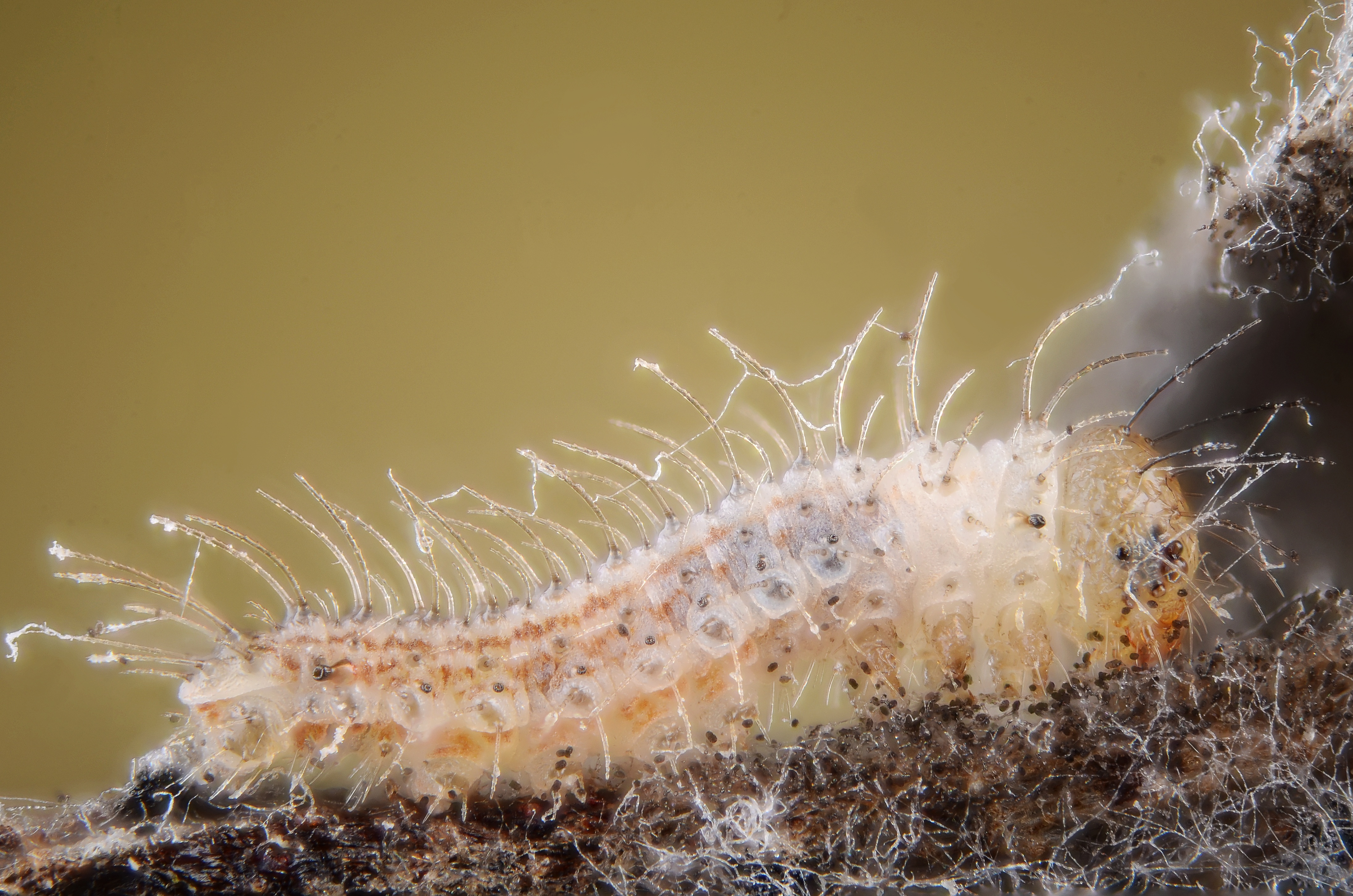 First instar Pyronia tythonus caterpillar in winter diapause. With thanks to Stéphane Claerebout who found it. Technical settings : - focus stack of 39 images - microscope objective (Nikon achromatic 10x 160/0.25) on bellow